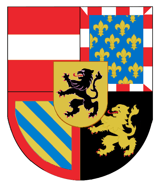 Coat of arms of Philip the Handsome, as coat of arms of the Habsburg Netherlands